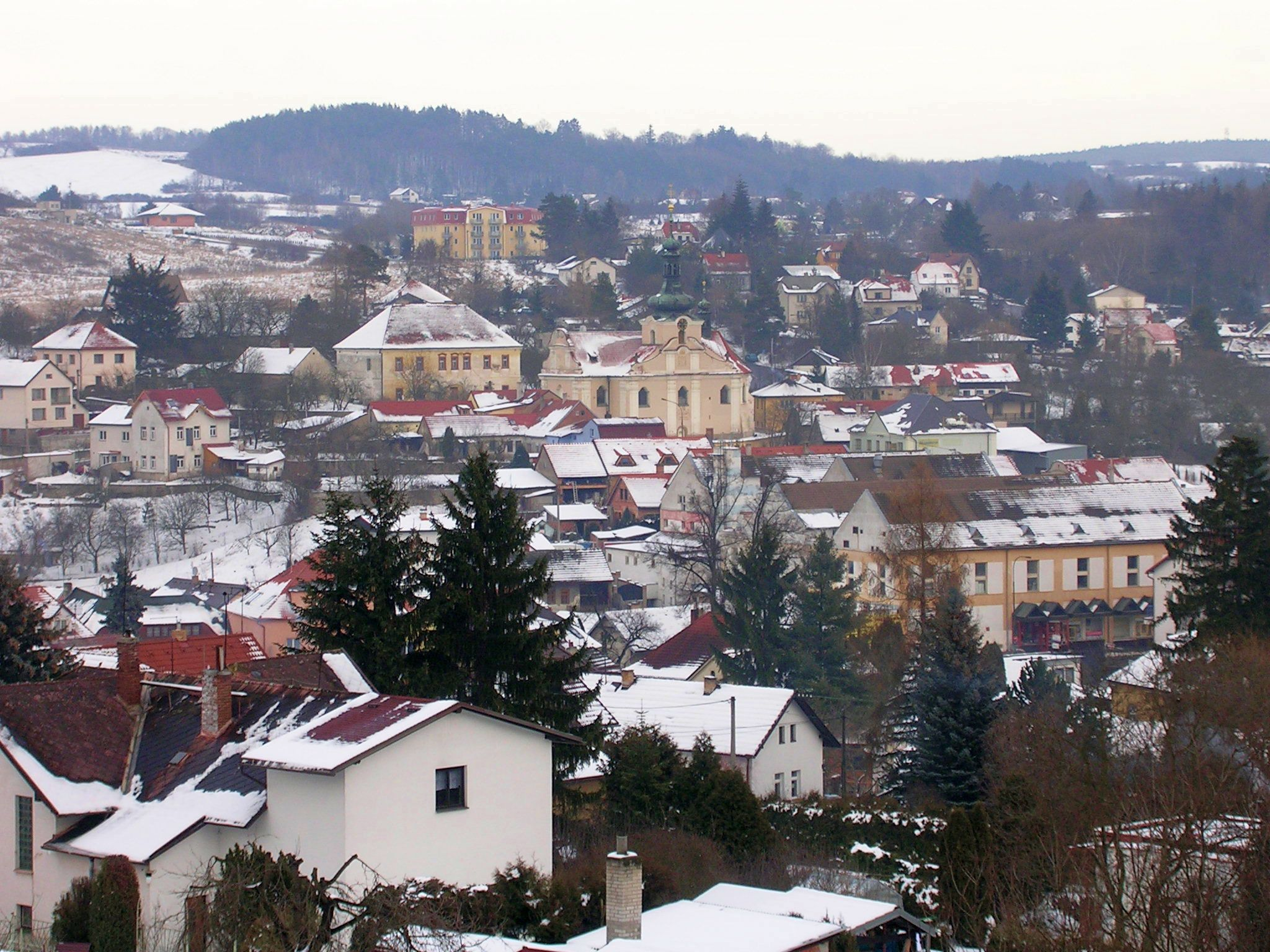 Mnichovice, the Czech Republic.